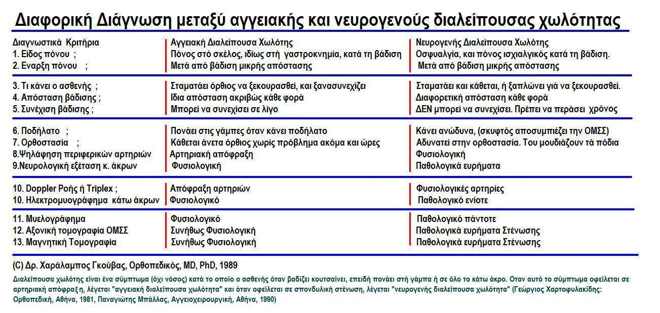 Differences between types of intermittent claudication